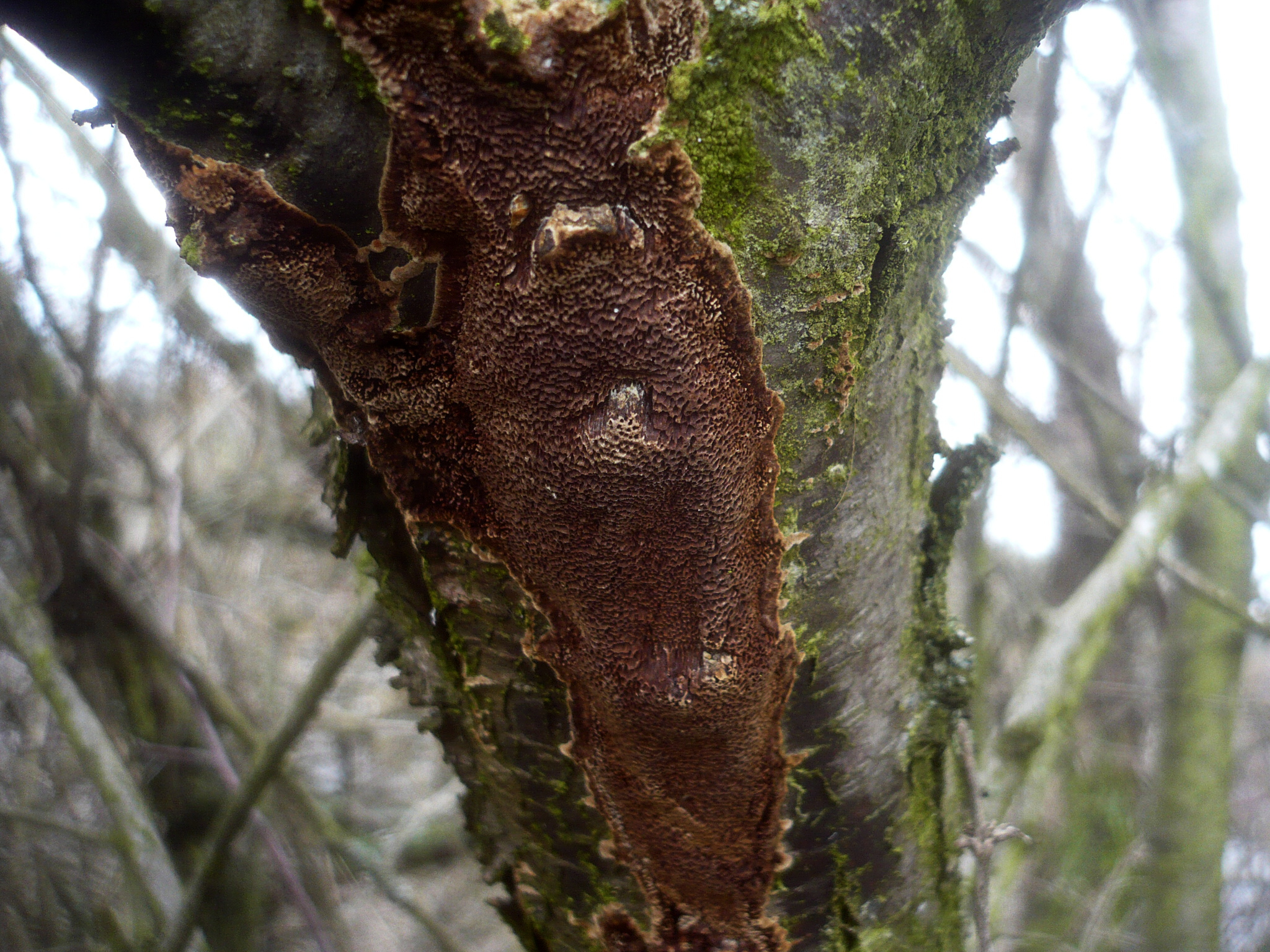 Fuscoporia contigua (Pers.) G. Cunn. Image location: Feuertal, Mattersburg, Bezirk Mattersburg, Burgenland, Austria Recognized by sight: on common sea buckthorn (!) Used references Based on microscopic features For more information about this, see the observation page at Mushroom Observer.